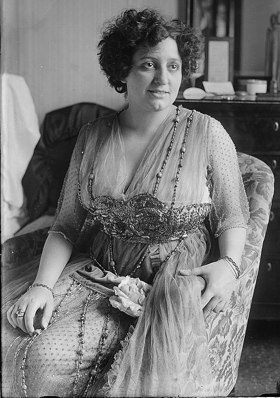 Photo of opera singer Claudia Muzio, taken between 1915-1920.